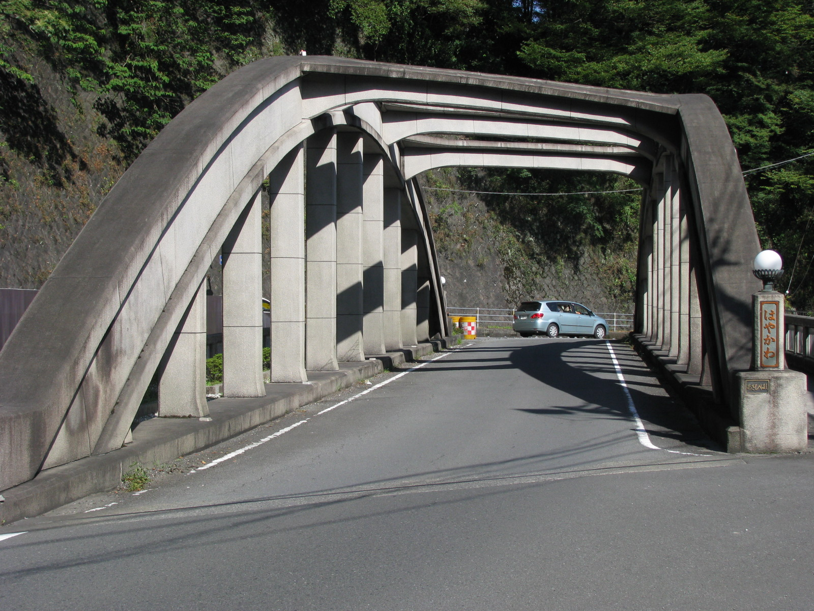 The Asahi-bashi is concrete bridge built in 1933. This place is Hakone, Kanagawa, Japan.